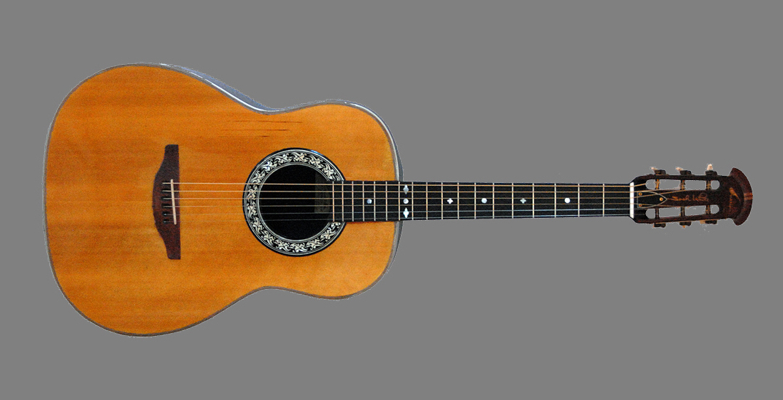 This is the custom made Ovation guitar, serial number 291 which is inscribed "custom for josh" on the label that was built by the Ovation guitar company for Josh White in 1965/66 under his guidance. This guitar was used in many concerts and can be seen being played by Josh in one of his last filmed performances on Swedish television. It can also be seen on the cover of the Decca record album "The World of Josh White".